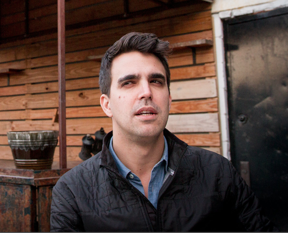 PJ Vogt